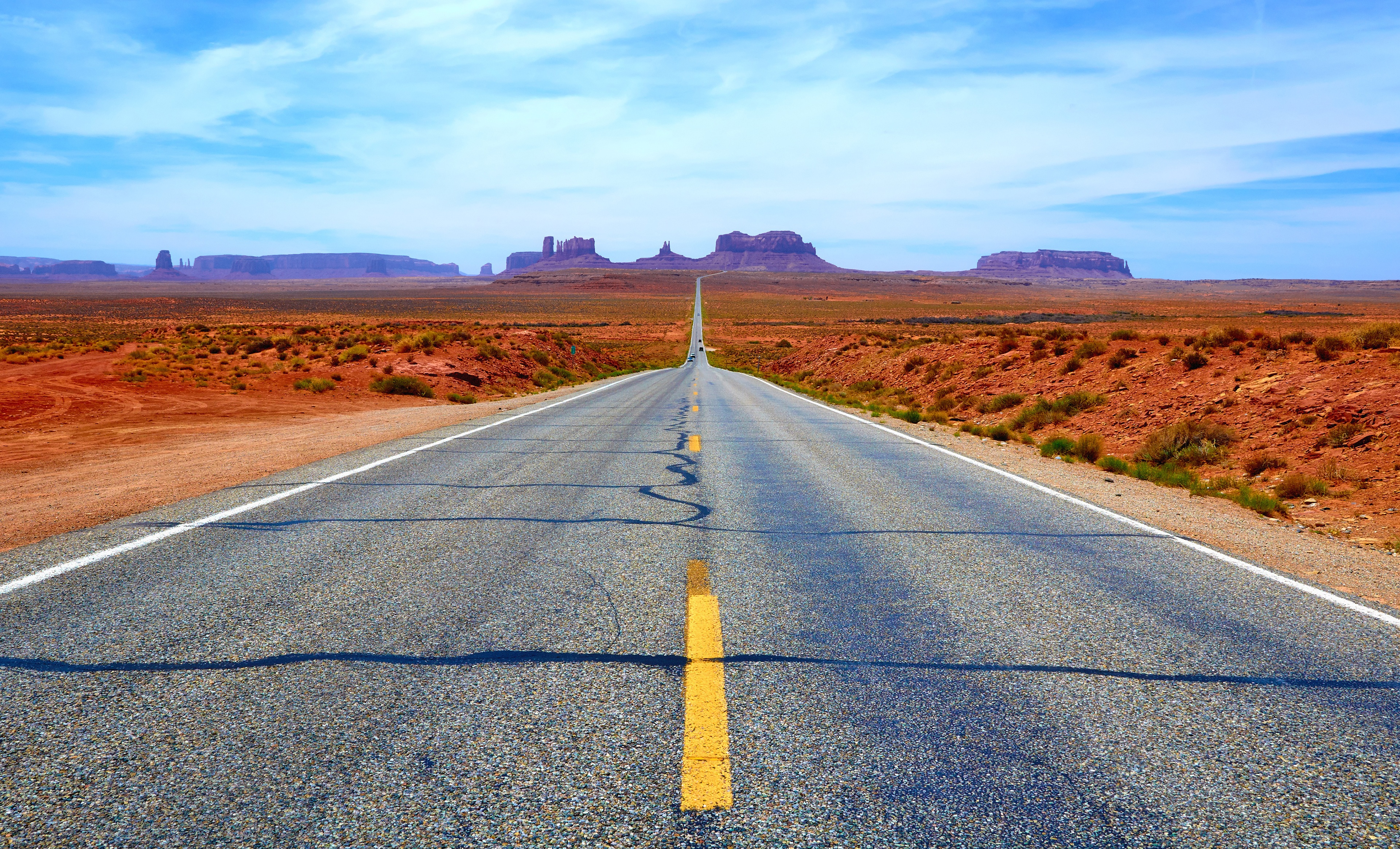 a road with a straight perspective